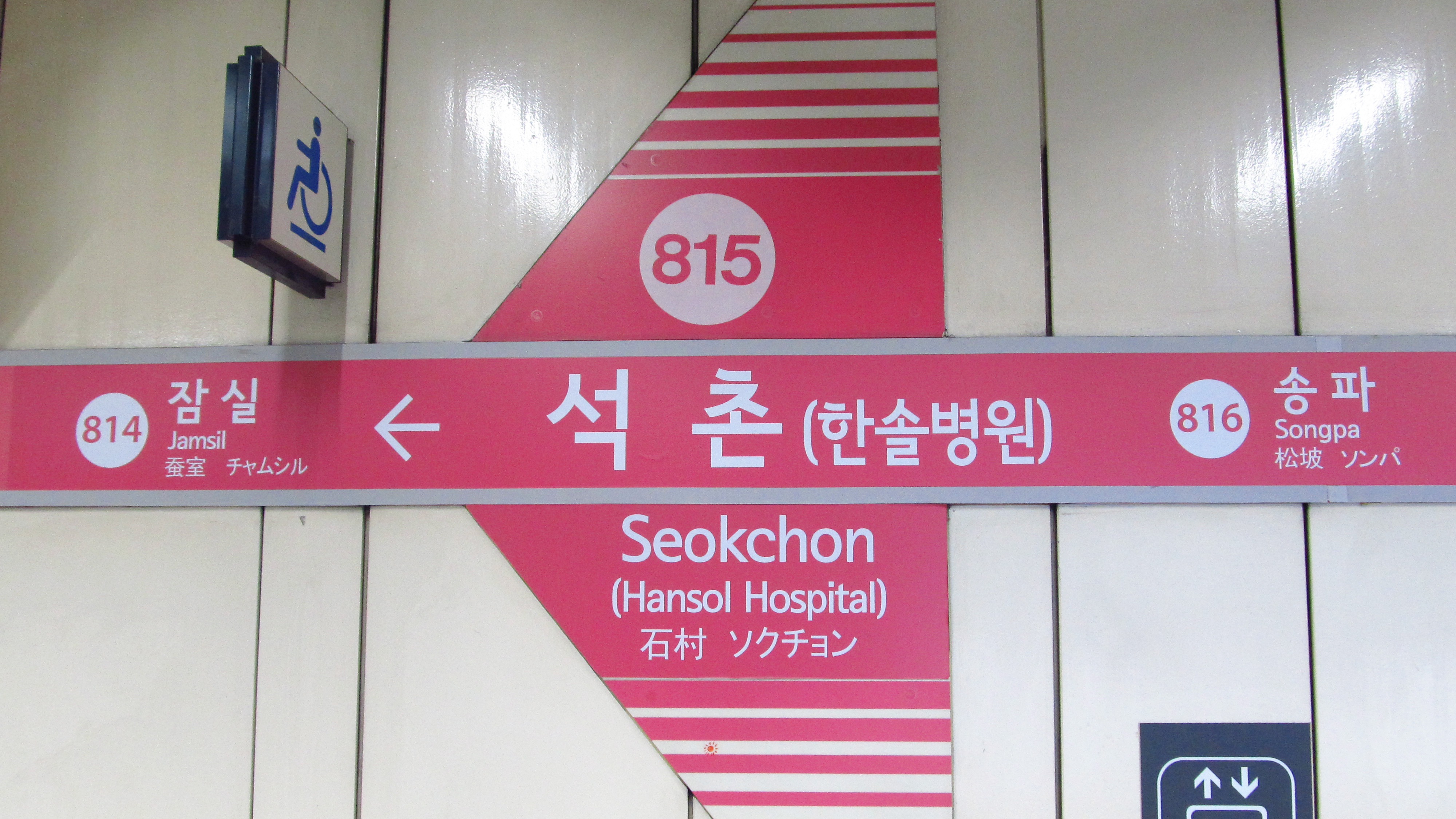 A sign of Seokchon Station on Seoul Subway Line 8